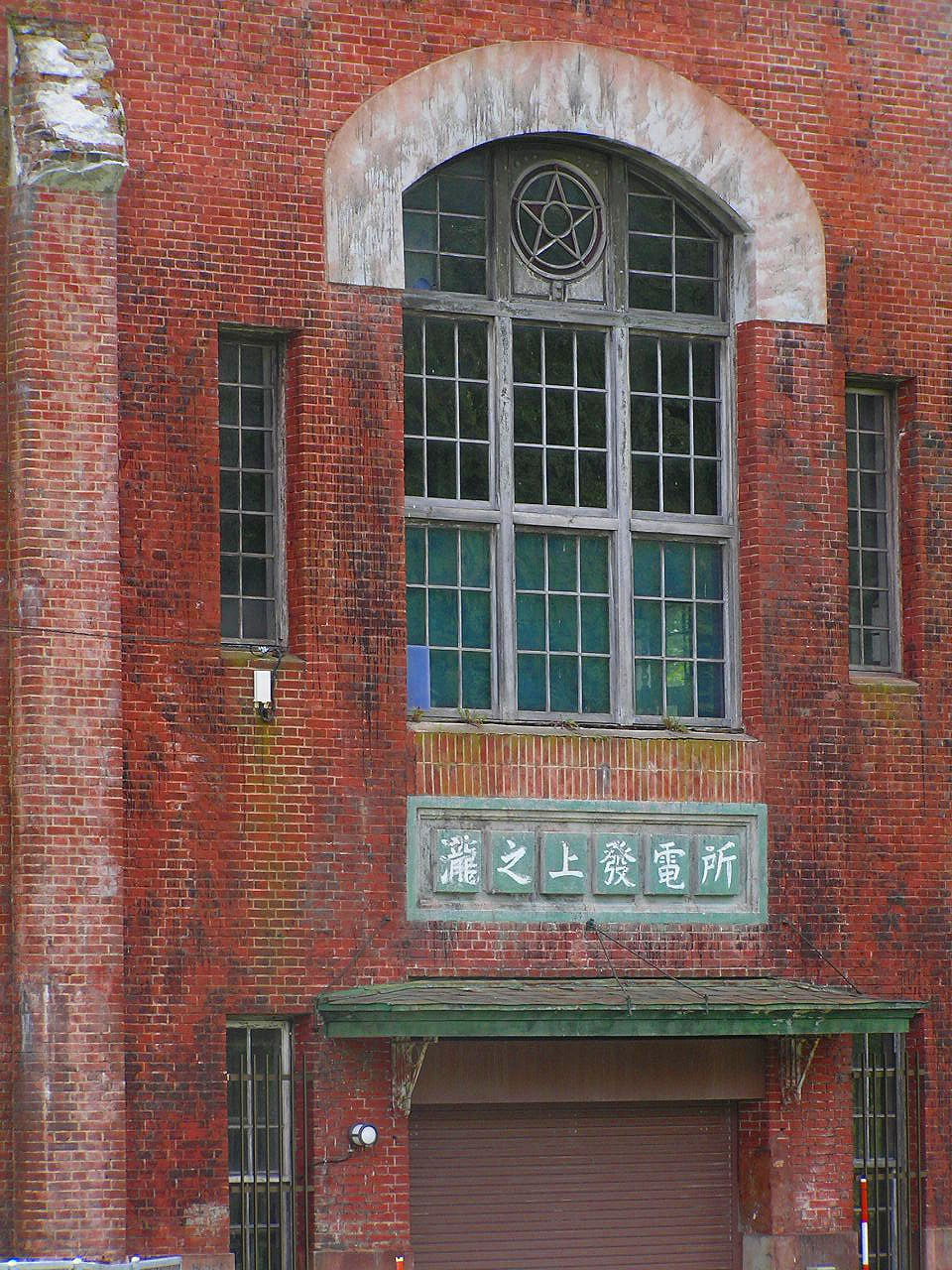 Takinoue Power Station